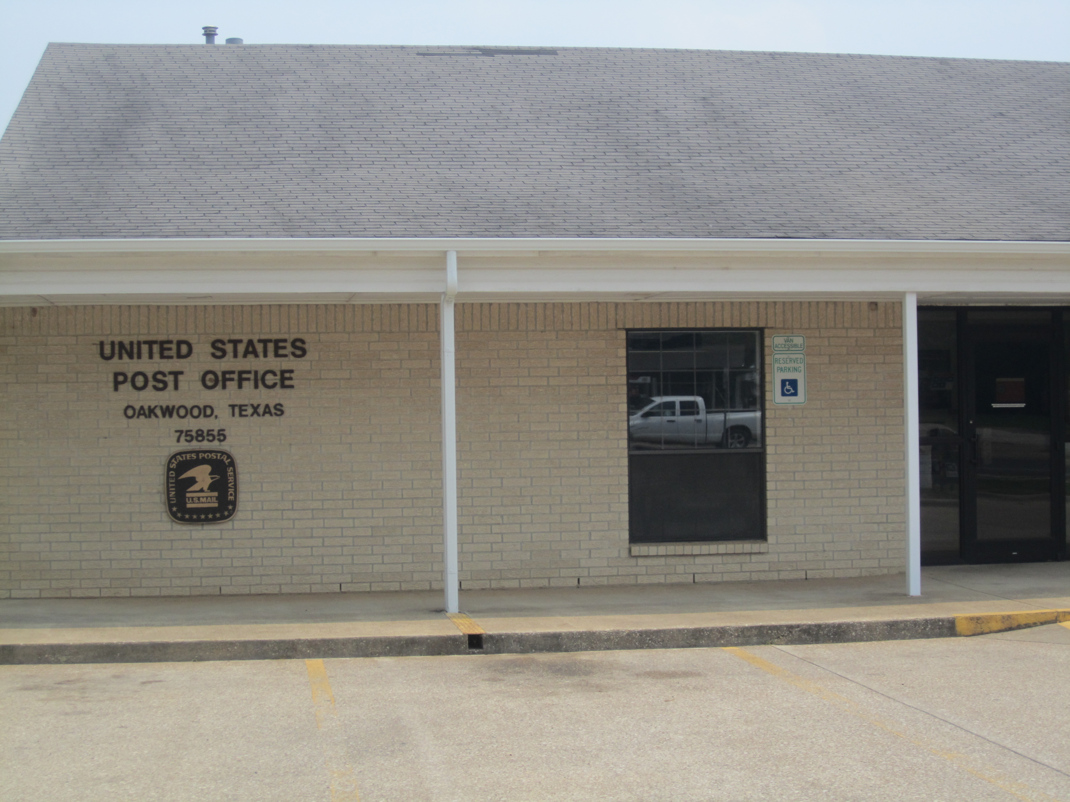 I took photo with Canon camera in Oakwood, Texas.